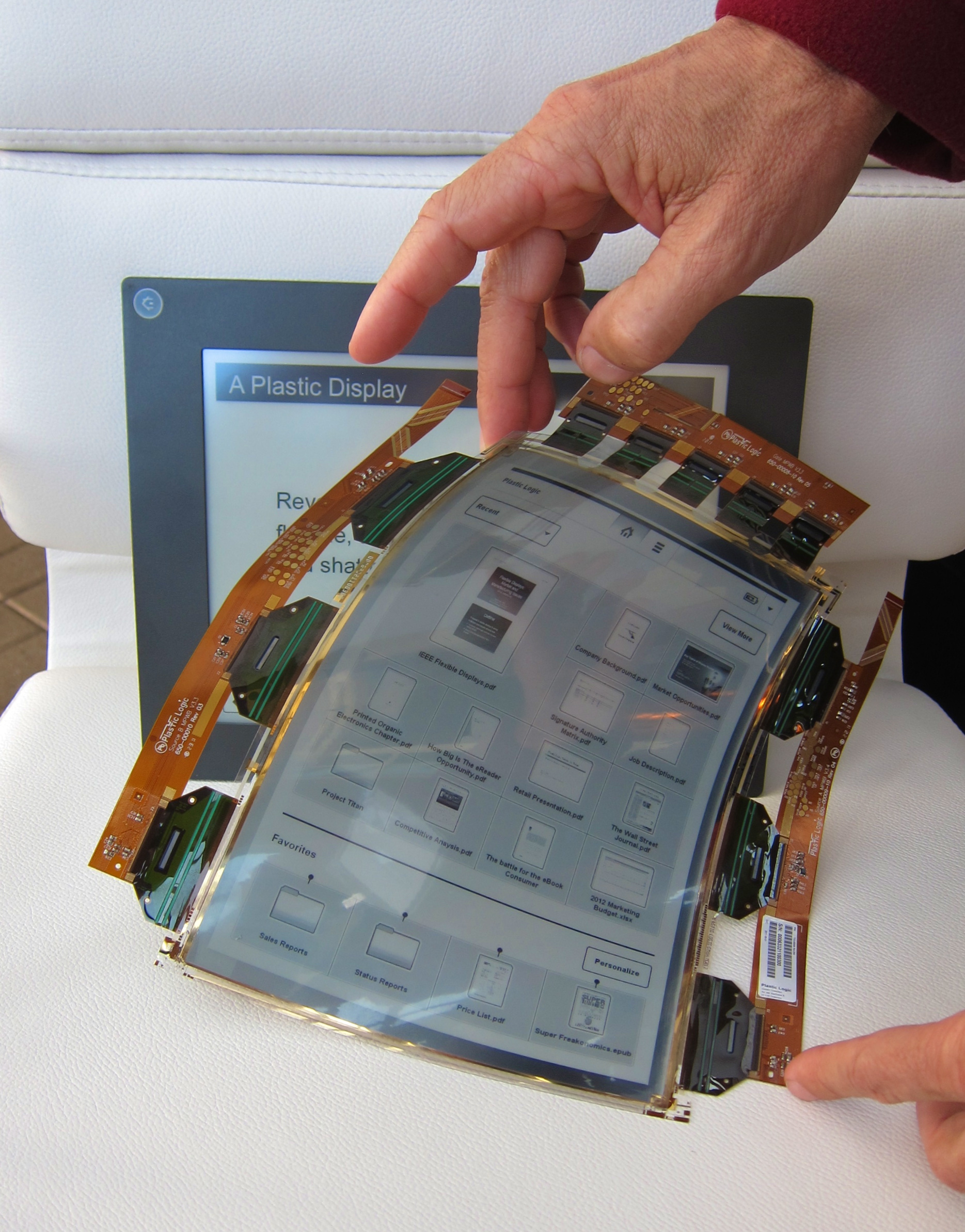 The PlasticLogic screen, demonstrated by Chariman Hermann Hauser, visiting Google's Solve for from the U.K. They have developed high mobility transistors on plastic, unlike prior attempts like FlexICs.